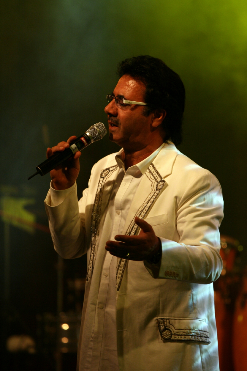 Moin ( Moeen ) concert Kuala Lumpur Malaysia 2009